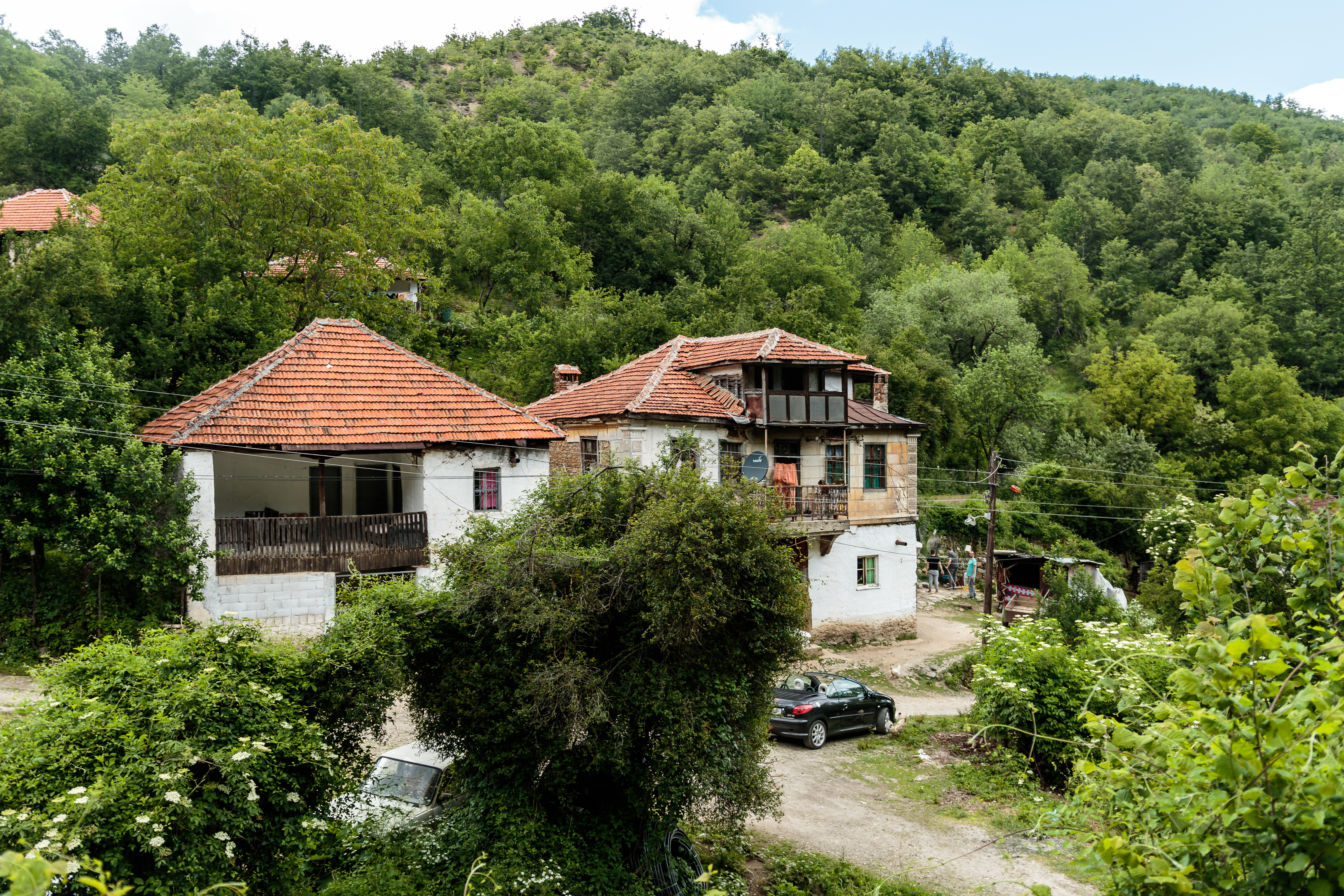 View of old houses in the village Bazernik